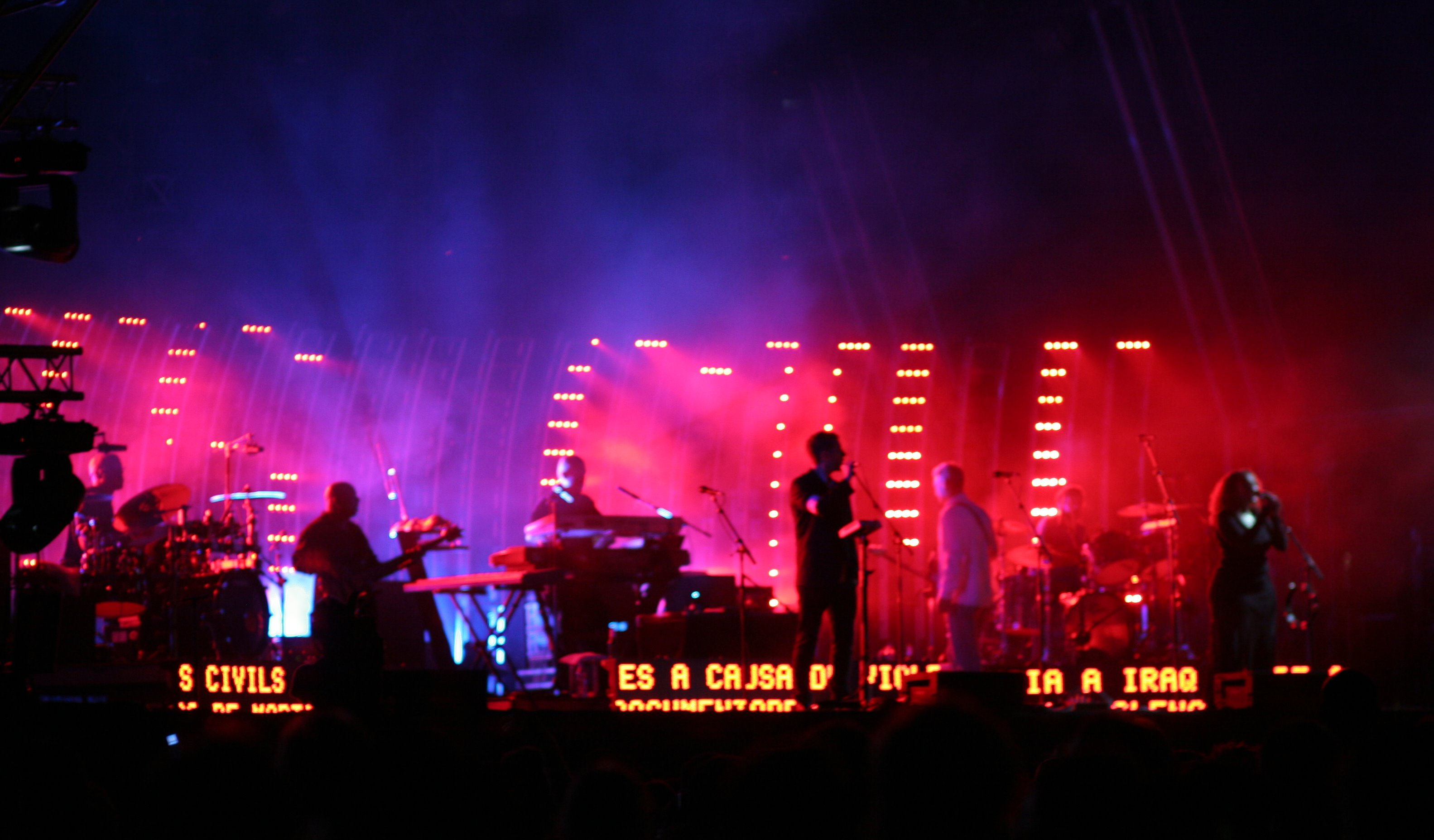 Massive Attack